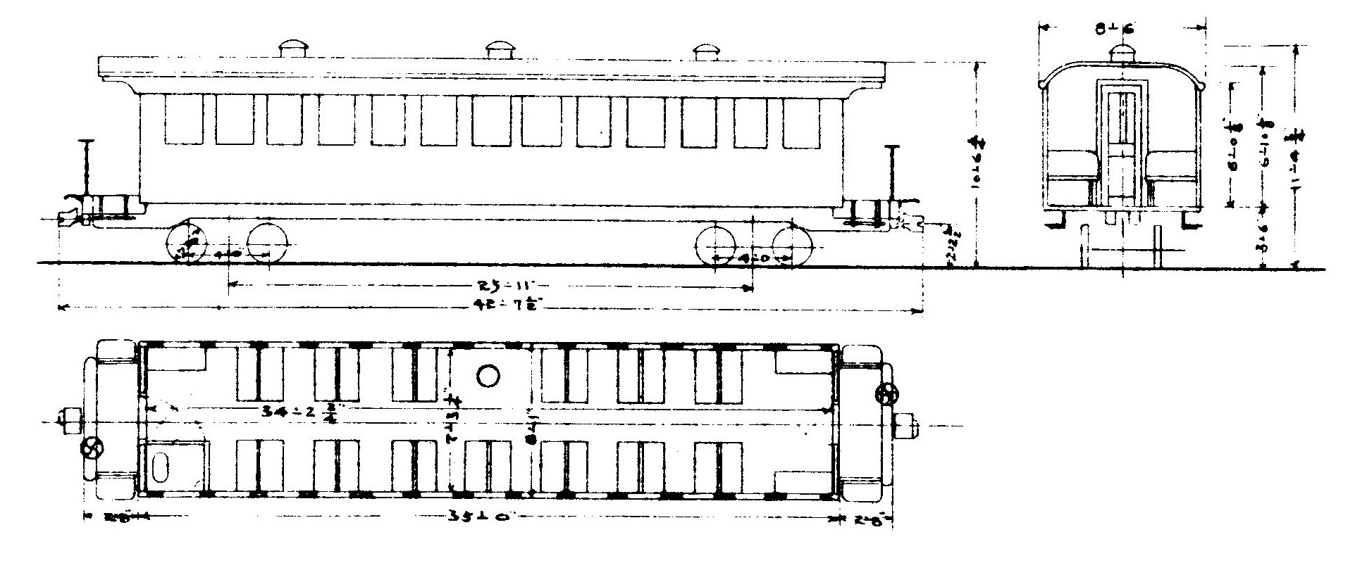 Type drawing of JGR's passenger car Fukoha7970 (ex. Hokkaido Tanko Railway Sa-63)